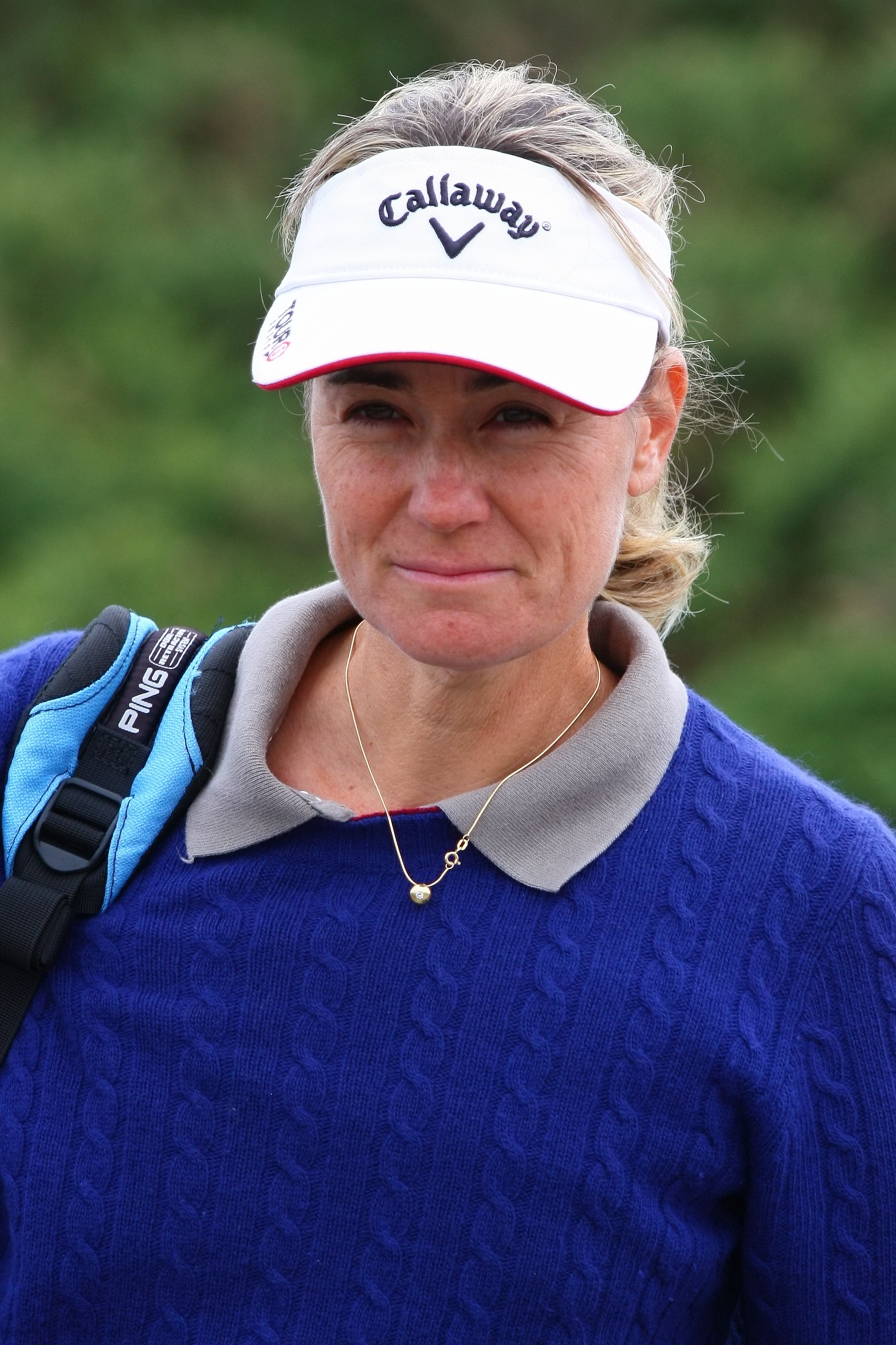 SOUTHPORT, UNITED KINGDOM - AUGUST 01: Silvia Cavalleri of Italy leaves the driving range before final round of 2010 Ricoh Women's British Open held at Royal Birkdale on August 1, 2010 in Southport, England. (Photo by Wojciech Migda)